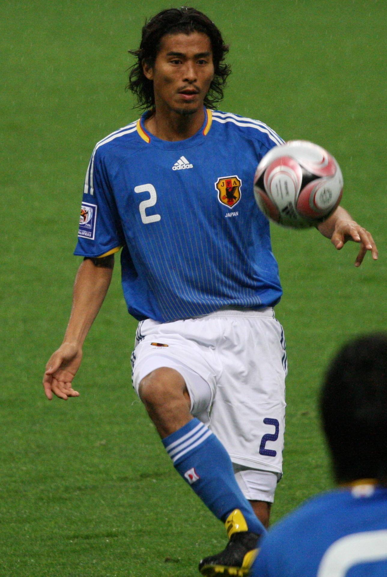 Yuji Nakazawa, during Japan's world cup qualifier against Bahrain on June 22, 2008